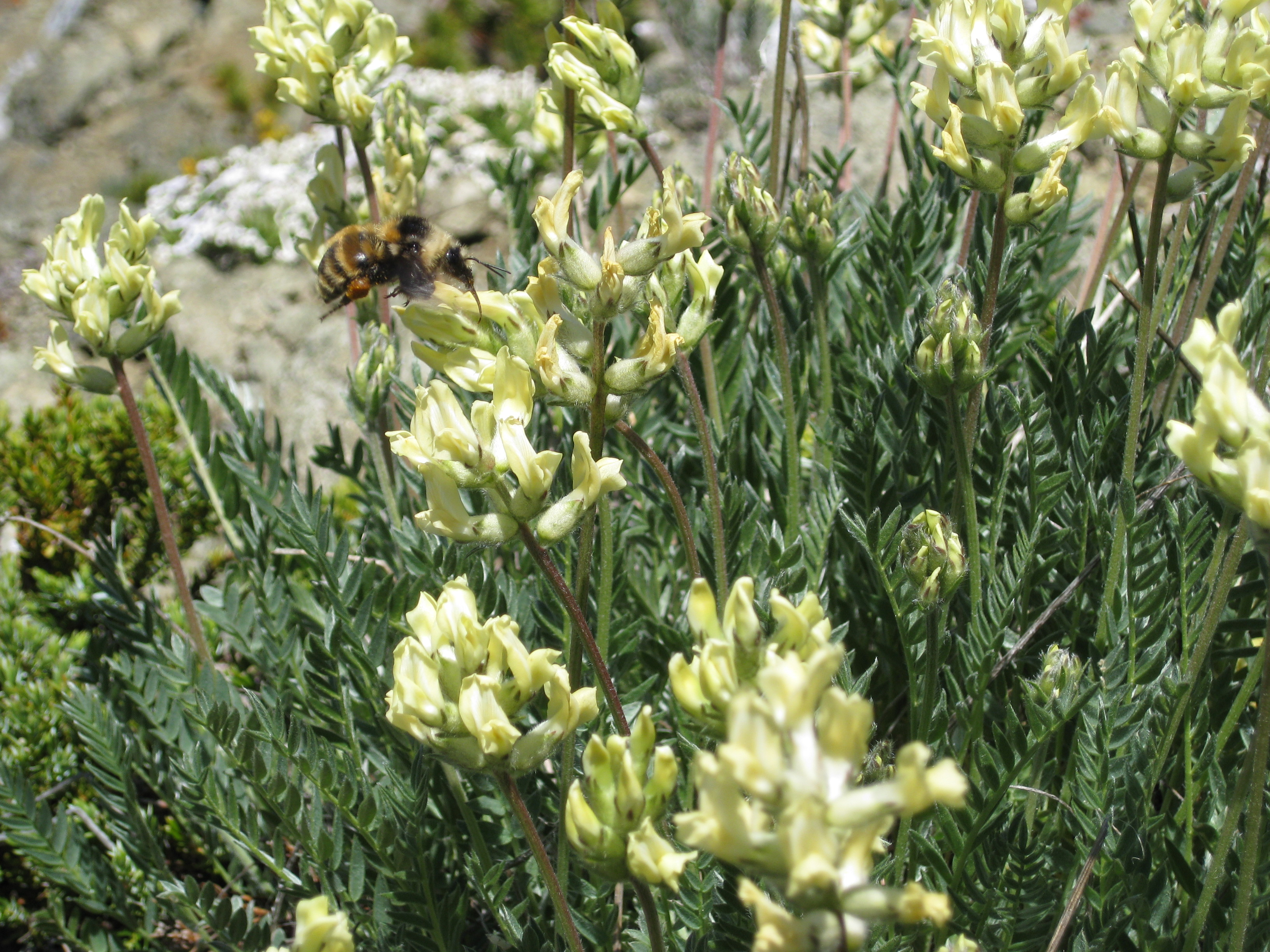 Oxytropis campestris (field locoweed) and Bumblebee Bombus rufocinctus Marmot Pass Buckhorn Wilderness, Olympic National Forest, Washington, USA